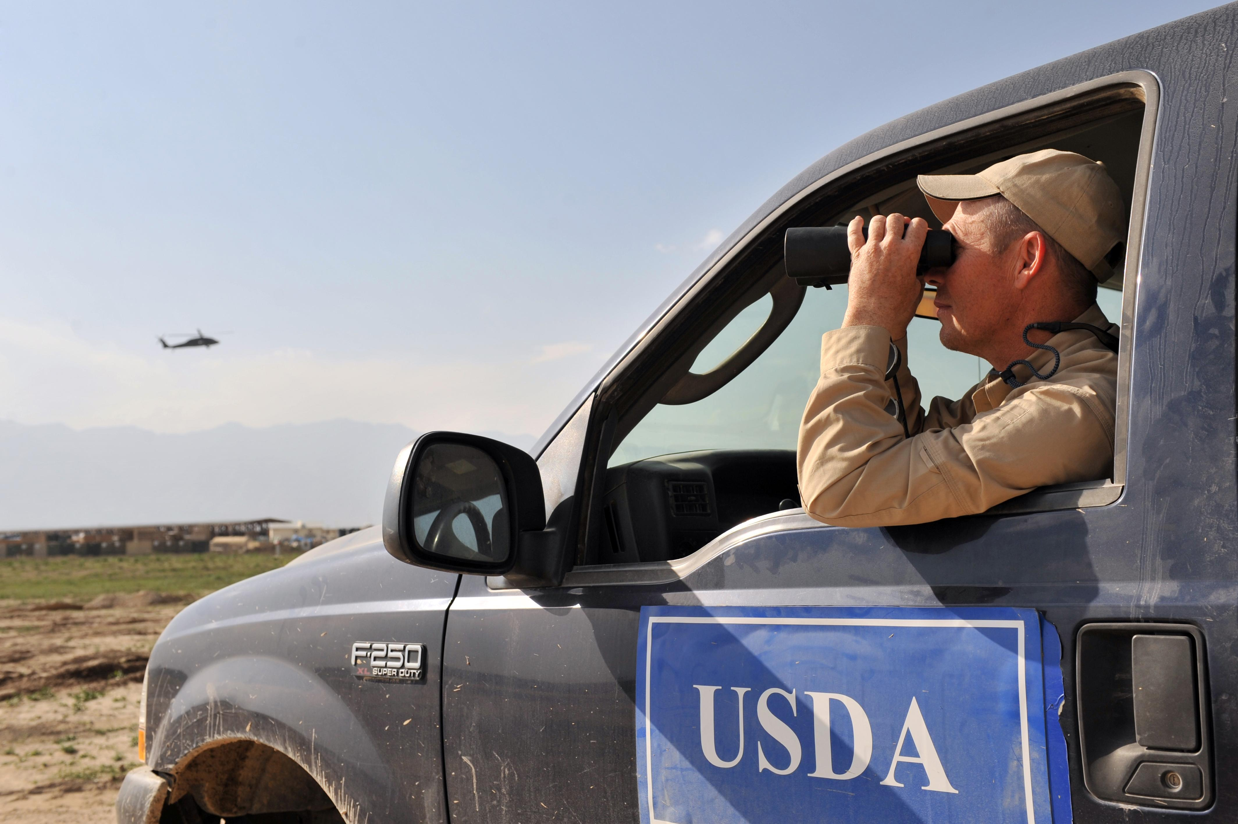 Mr. Eddie Earwood, U.S. Department of Agriculture Wildlife Services biologist, assess the airfield for birds at Bagram Airfield, Afghanistan, April 13. Earwood, assigned to the 455th Air Expeditionary Wing Safety, routinely checks different locations on and around the flightline to ensure there are no birds or varmints that can potentially be a safety hazards. Unit: 455th Air Expeditionary Wing